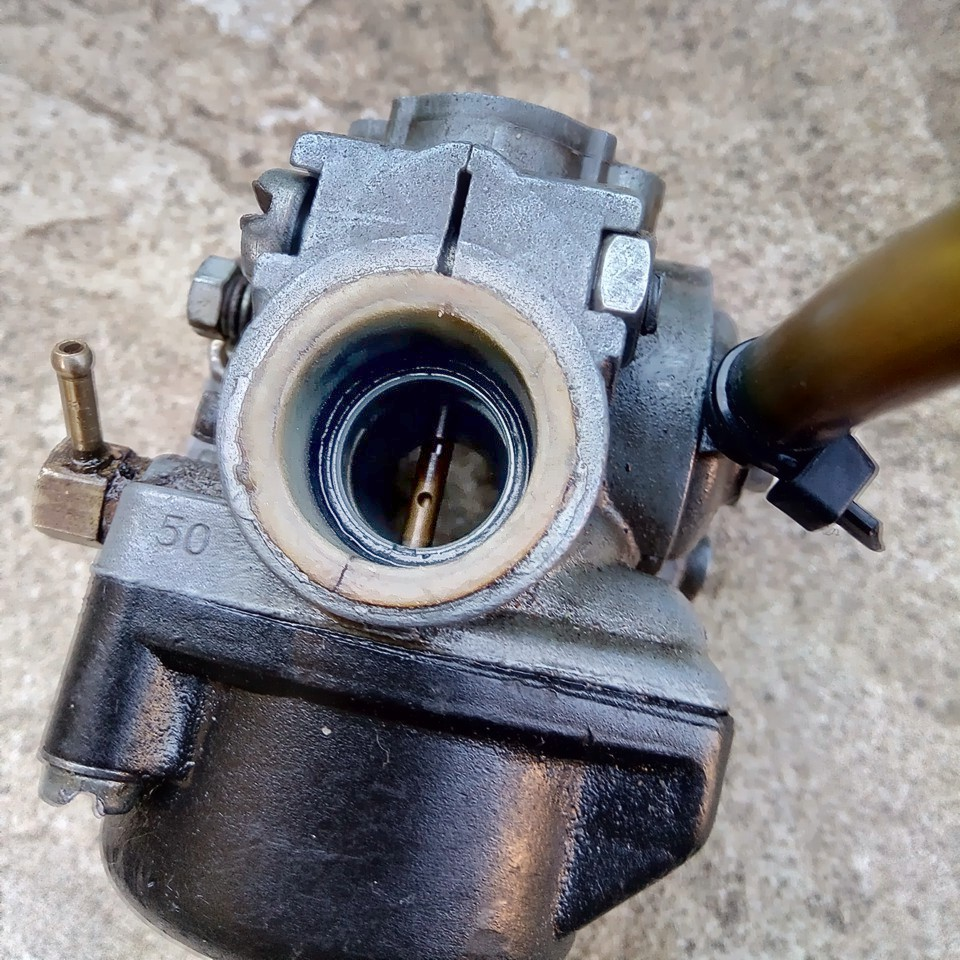 The atomized spool of the carburettor Dell'Orto SHA 14/12, seen on the supply side, missing the top lid and the gas valve, it is possible to observe the seals in the female sleeve.